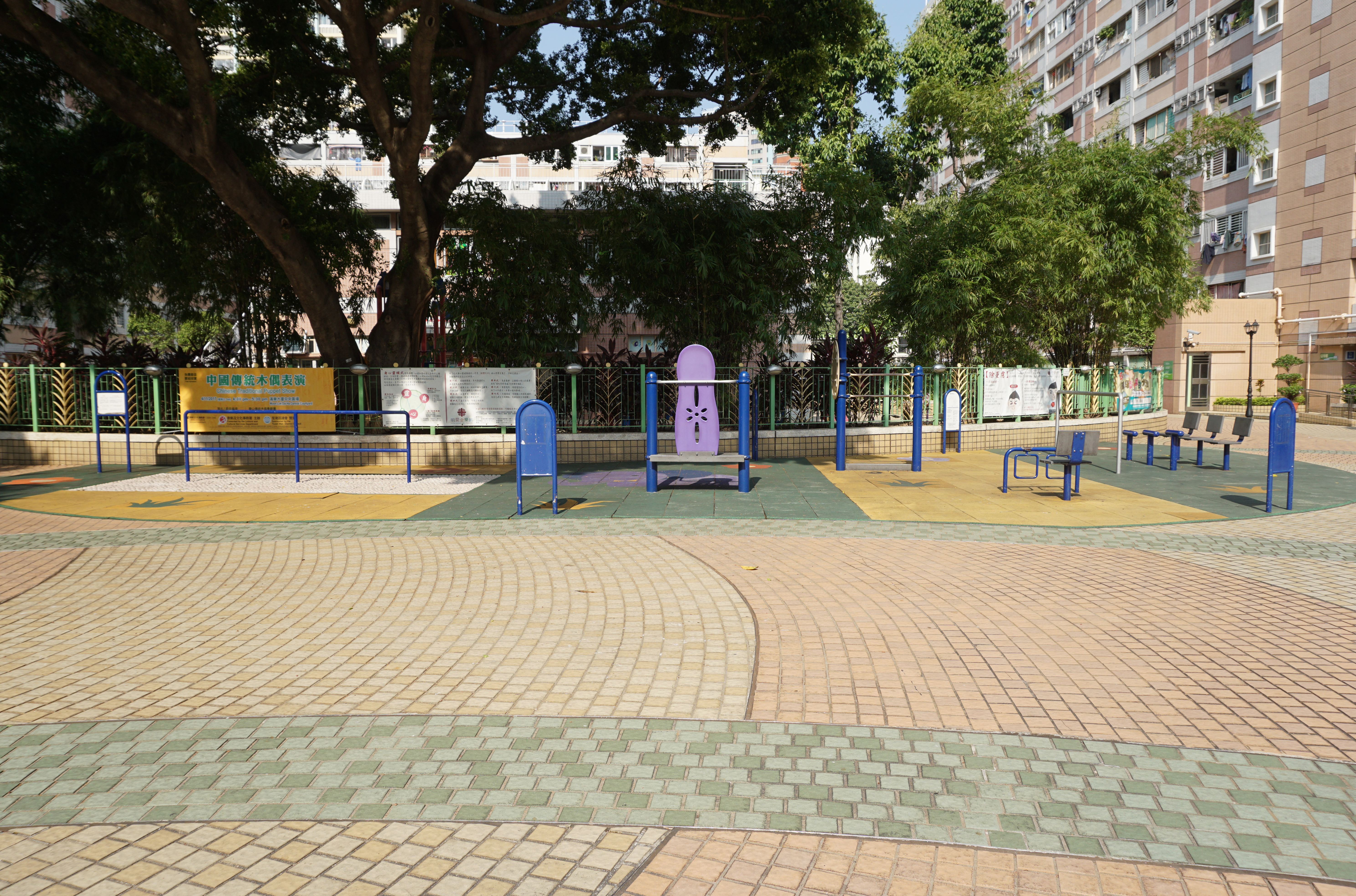 Moon Lok Dai Ha in Tsuen Wan, Hong Kong.